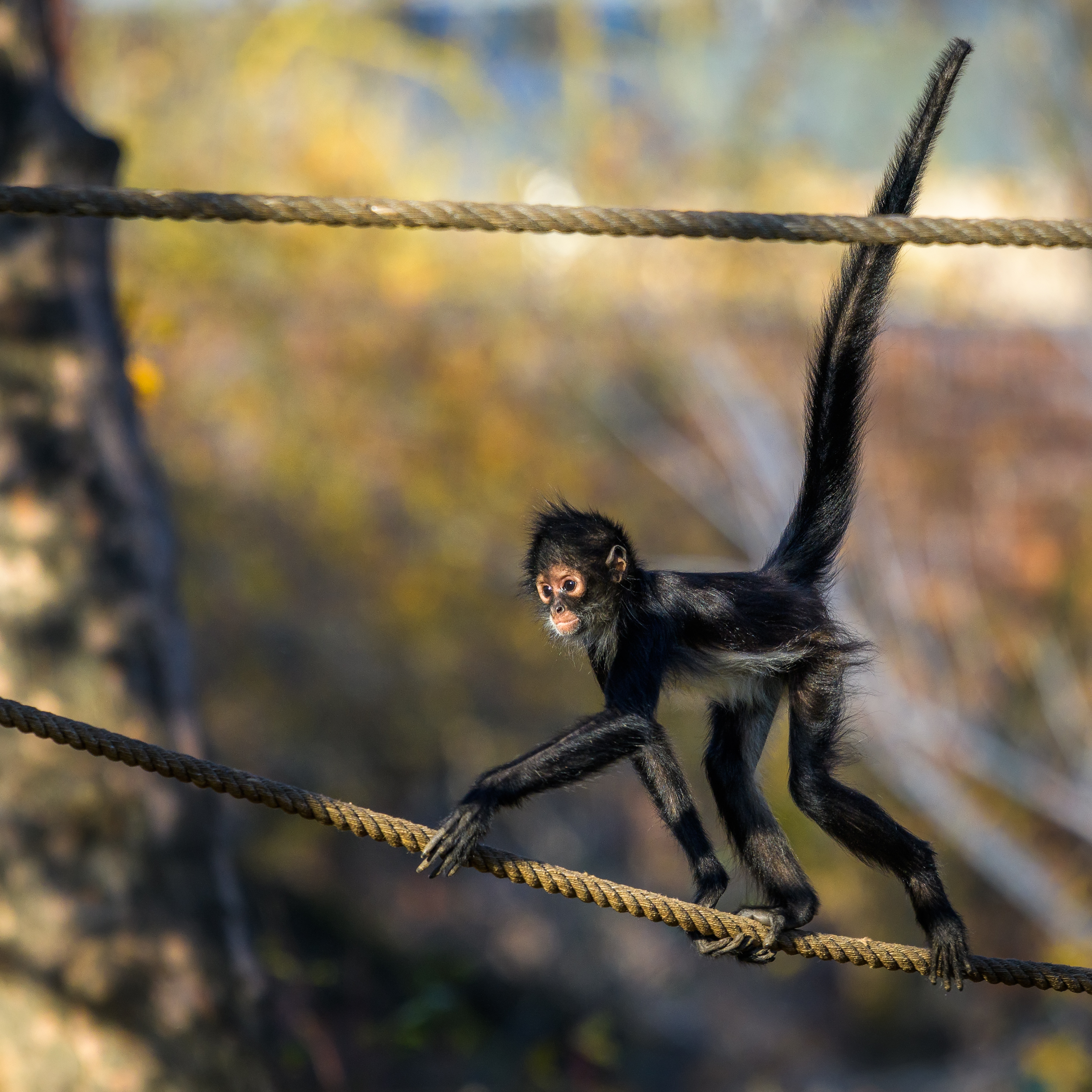 Jung Geoffroy's spider monkey, Prague Zoo